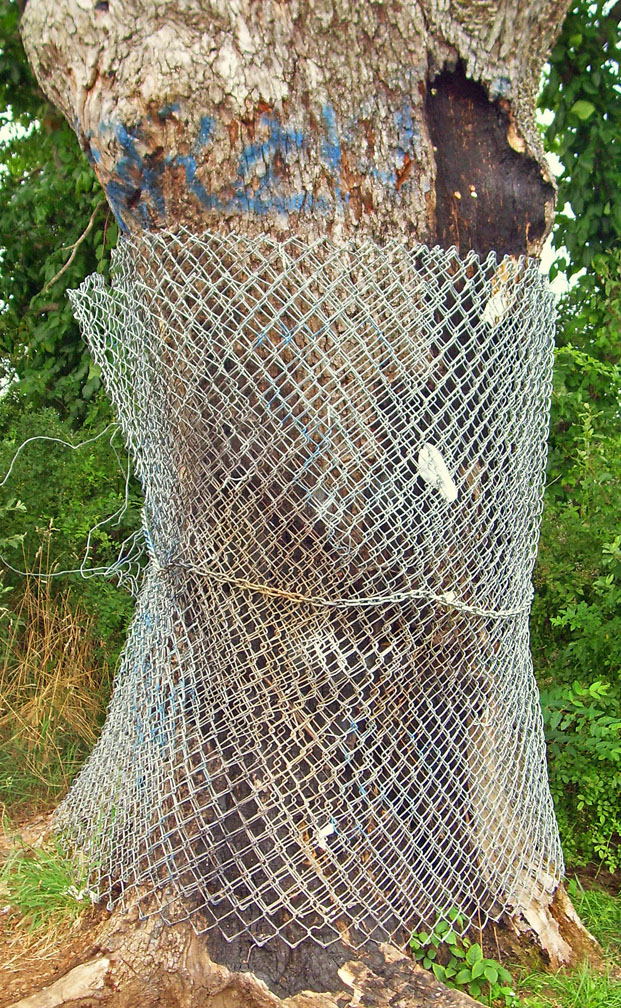 Photographed by Daniel Case 2006-07-27